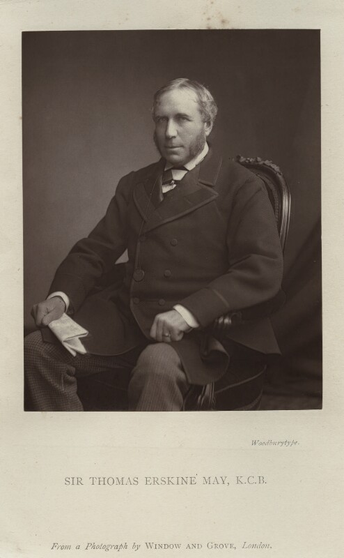 Photo of Thomas Erskine May, 1st Baron Farnborough